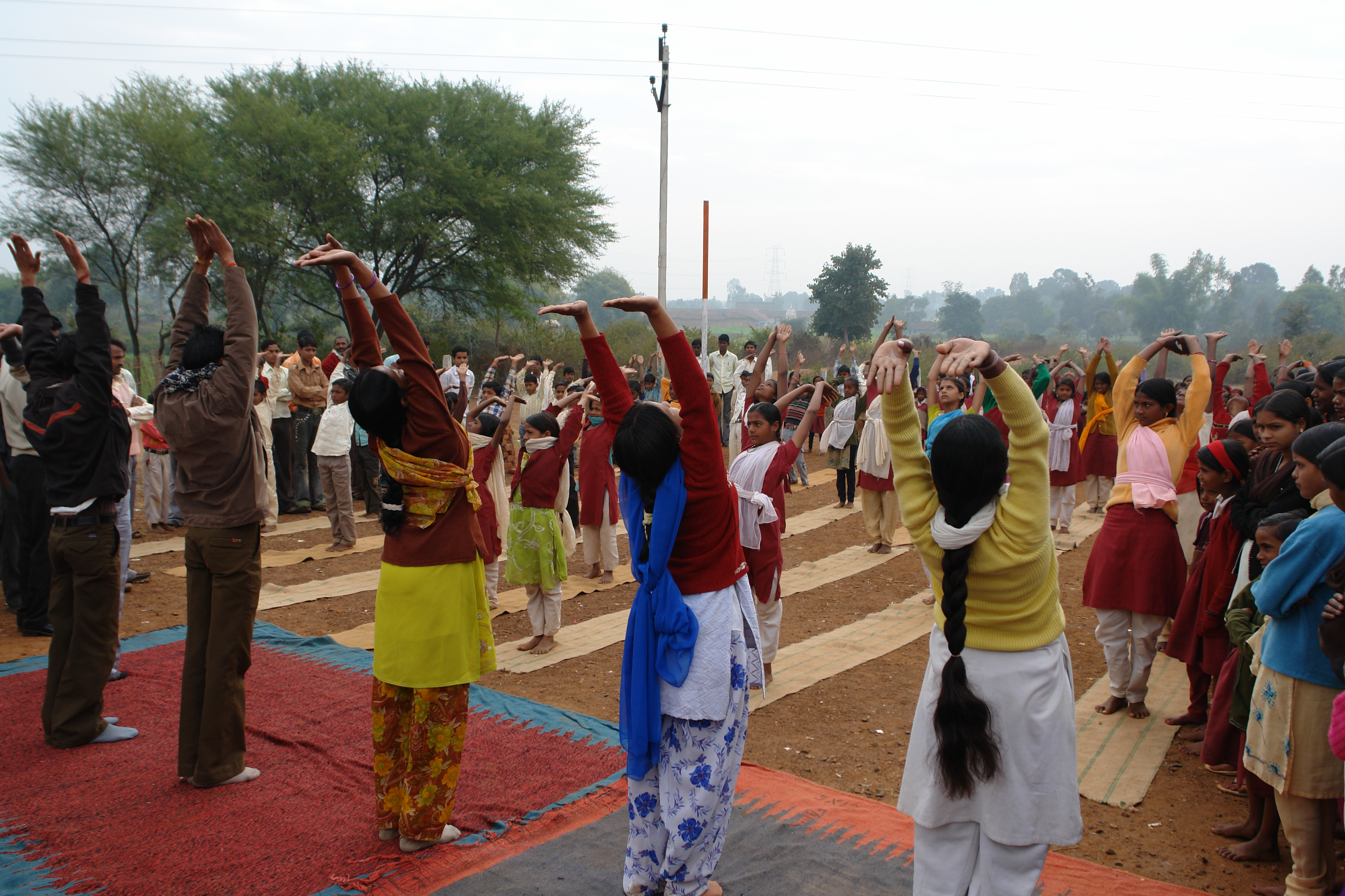 Salutation to the sun (Surya Namaskar), Katni, MP, India.